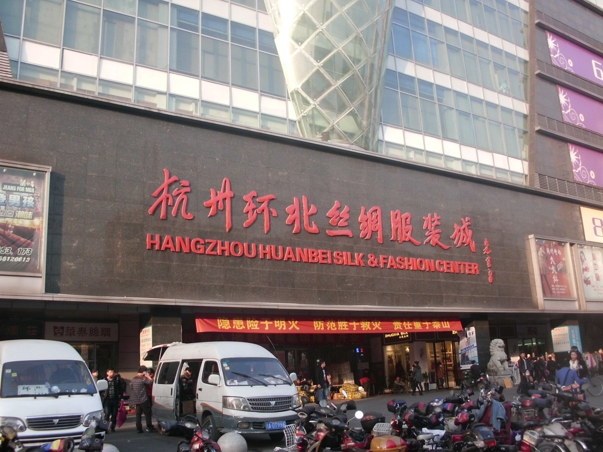 Hangzhou China Silk Town